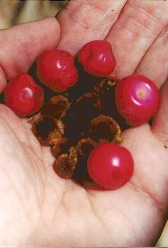 Vitex lignum-vitae (red) Jagera_pseudorhus (brown) Fruit - hand of Peter Woodard, photo taken by the Tweed River, New South Wales, Australia